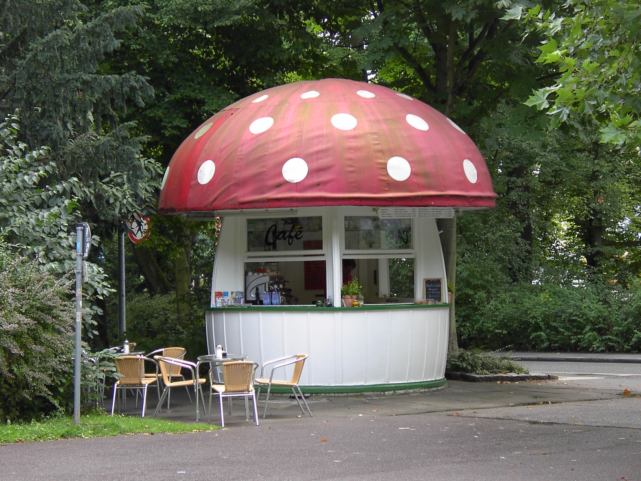 Kiosk in form of a mushroom in Regensburg